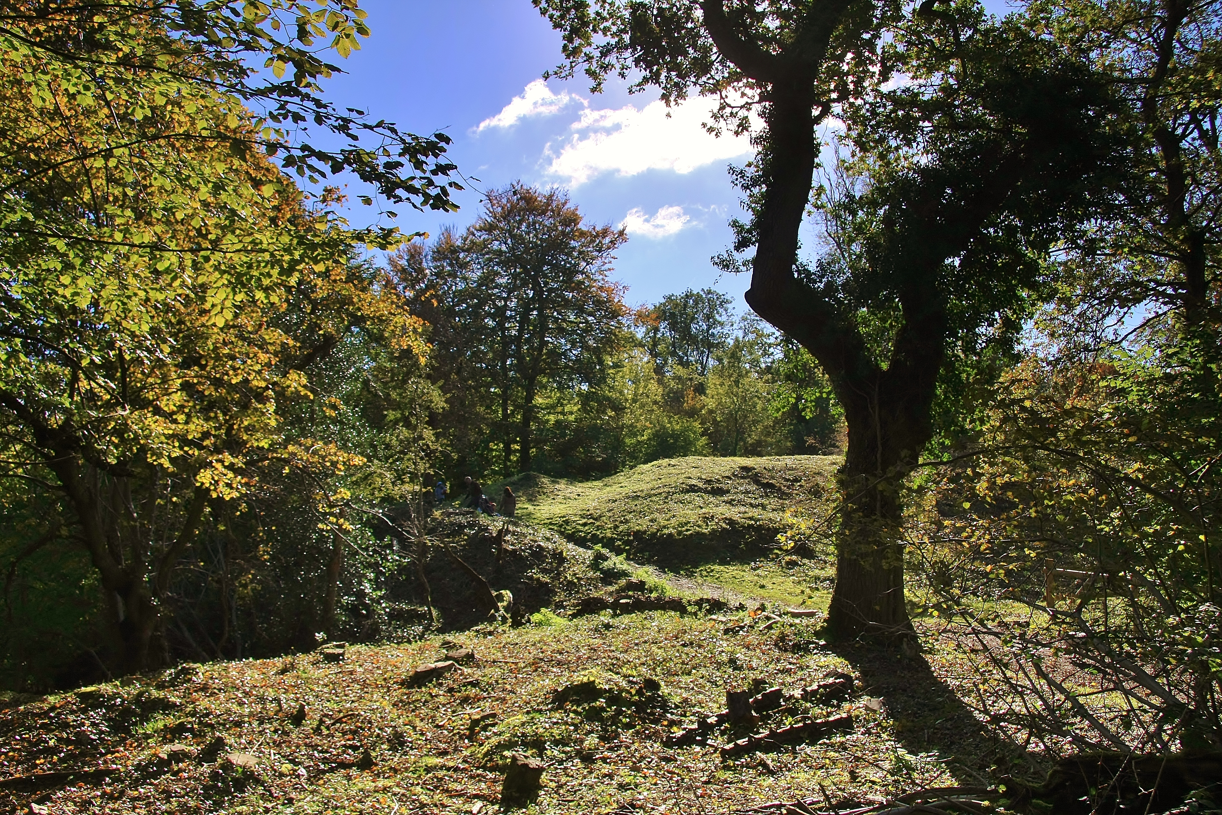 The ruins/remains of the ramparts of Iron Age fort Stokeleigh Camp in Leigh Woods on the edge of the Avon Gorge opposite Bristol, England